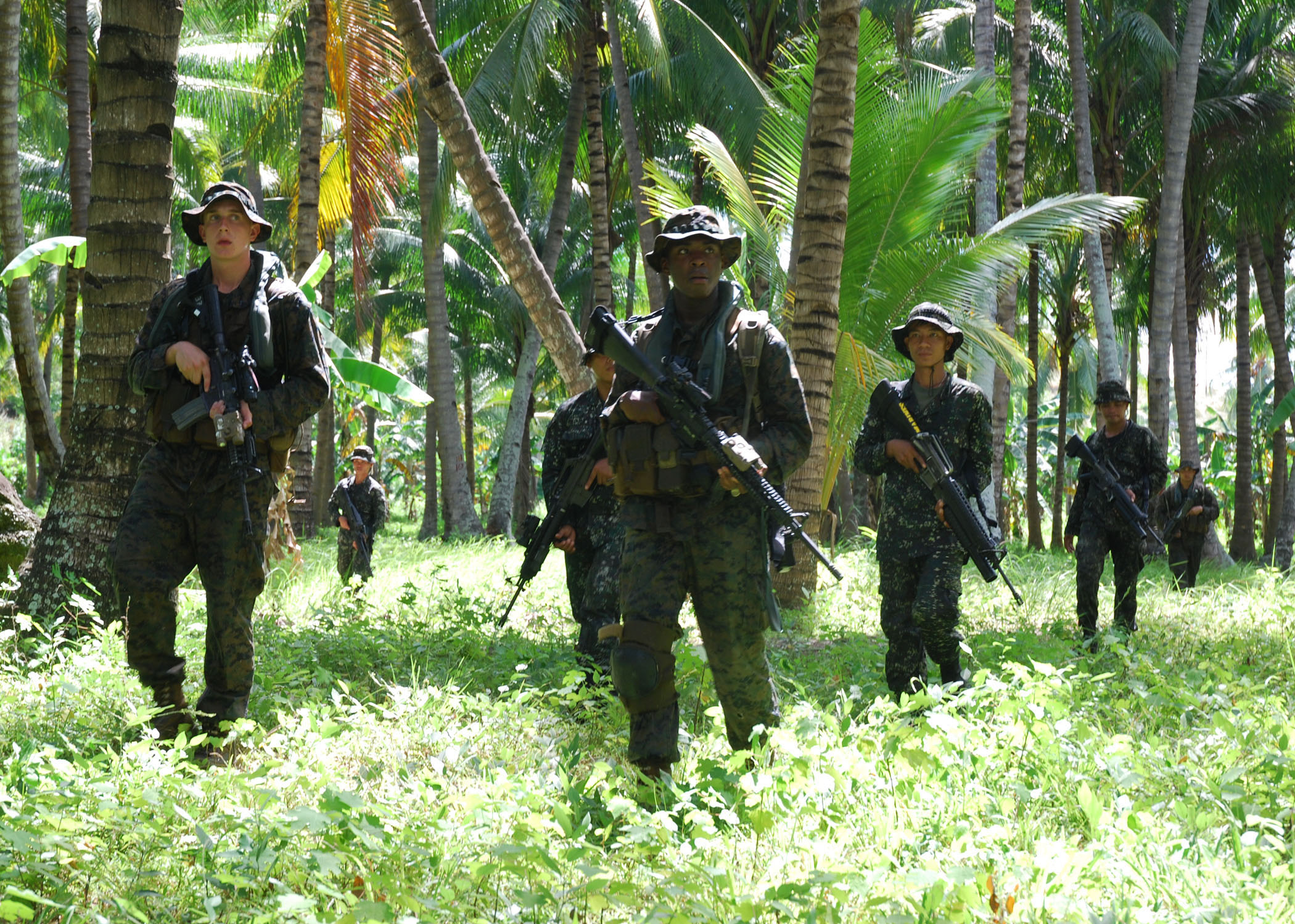 GENERAL SANTOS CITY, Philippines (July 3, 2012) U.S. Marines, assigned to Fleet Anti-terrorism Security Team Pacific, and Philippine marines conduct a patrol during an amphibious beach assault exercise for Cooperation Afloat Readiness and Training (CARAT) Philippines 2012. CARAT is a series of bilateral military exercises between the U.S. Navy and the armed forces of Bangladesh, Brunei, Cambodia, Indonesia, Malaysia, the Philippines, Singapore, and Thailand. Timor Leste joins the exercise for the first time in 2012. (U.S. Navy photo by Chief Mass Communication Specialist Aaron Glover/Released) 120703-N-HM950-042 Join the conversation navylive.dodlive.mil